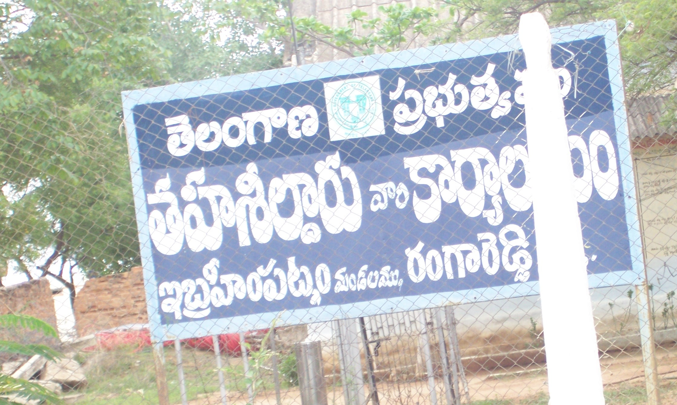 Tahasildar office